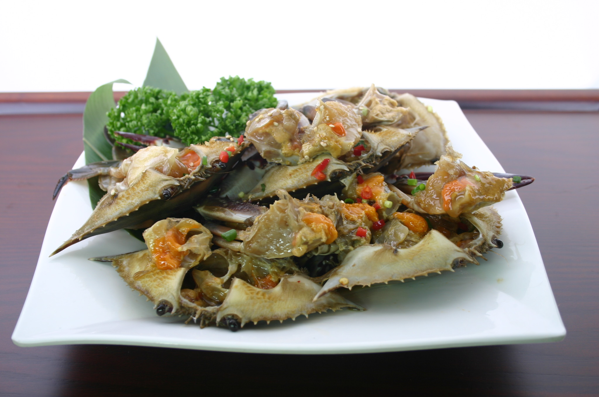 Kangangkejang / Soycrap